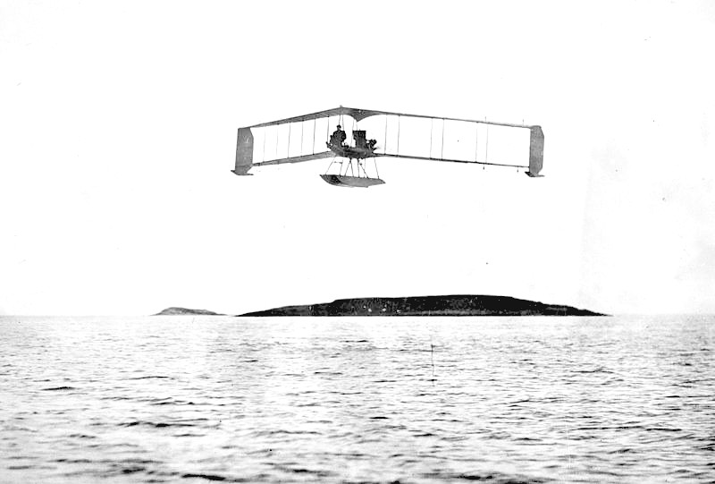 A Burgess-Dunne seaplane in flight, 18 March 1914. The Burgess-Dunne seaplanes was used by the U.S. Navy as Burgess-Dunne AH-7 and by the Canadian Aviation Corps.